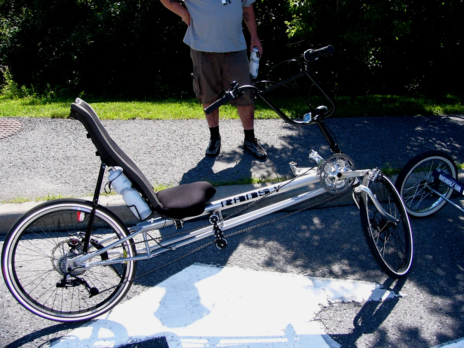 A Rans V recumbent bicycle photographed on the Colonel By Drive during a Bike Day road closure to motorized vehicles.